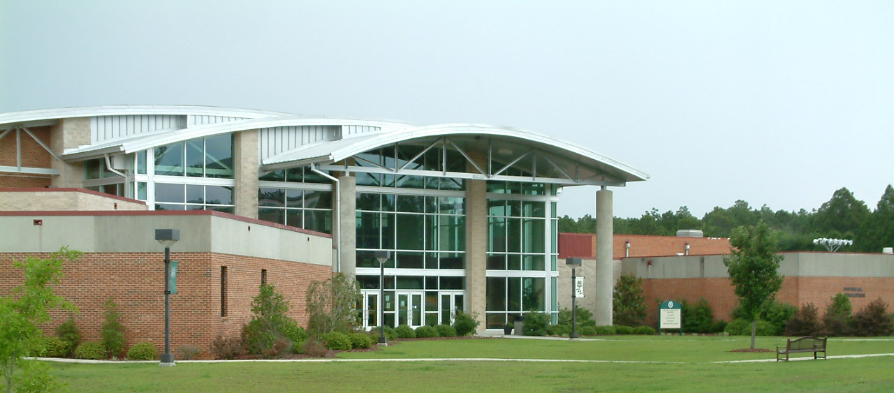 The Physical Education Building on the campus of East Georgia College in Swainsboro, Georgia. The eastern portion of this building was built as part of the original campus in 1973 and was significantly expanded in 2003, housing physical activity space, offices for the athletics program, and classroom space. In the summer of 2010, the college began construction of an athletics complex behind the Gymnasium, adding a baseball field, softball field, improved tennis courts, and related support facilities.